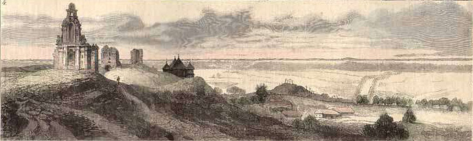 Navahradak, vulica Zamkavaja